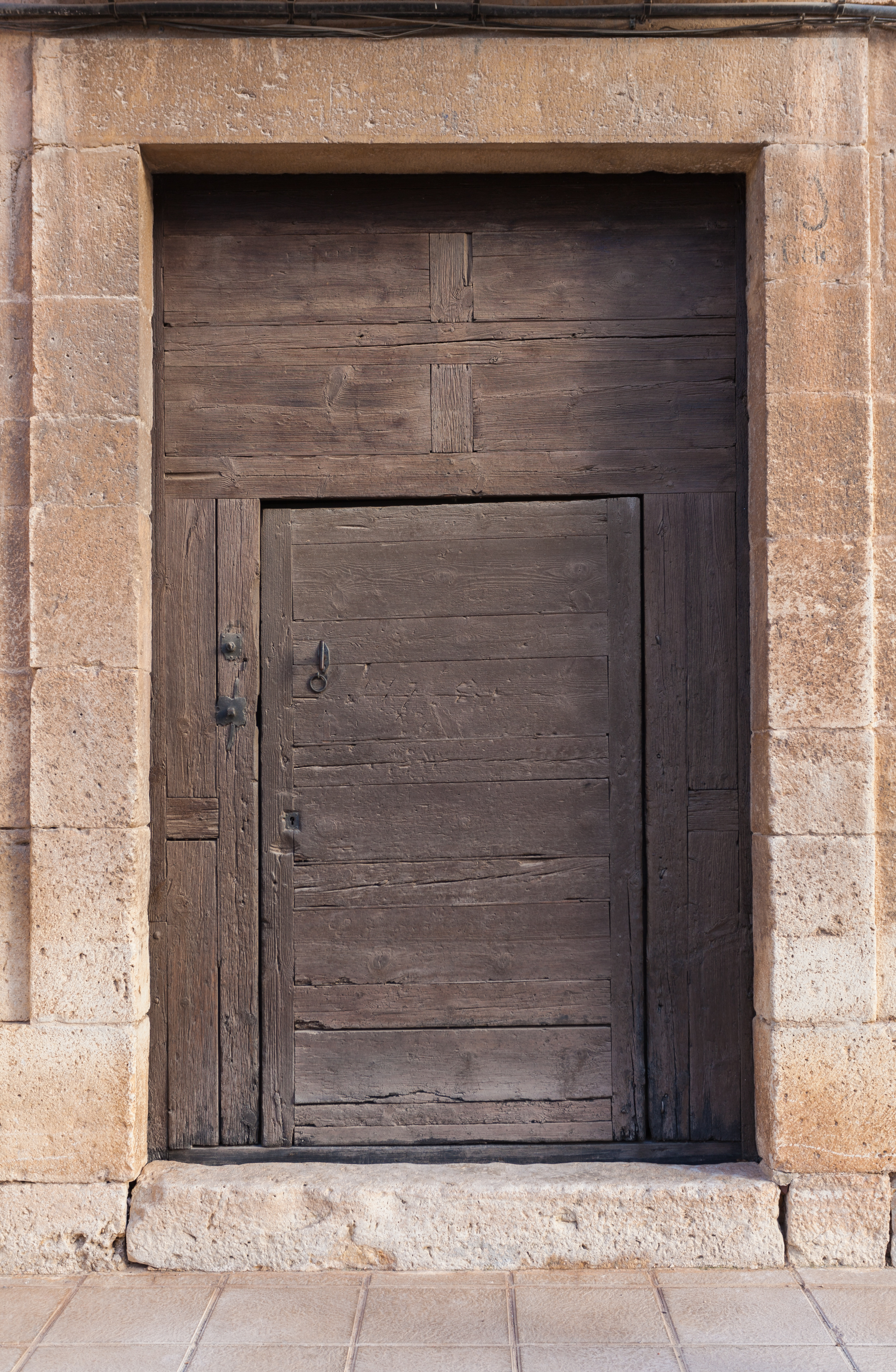 Rivera House, Calamocha, Teruel, Spain